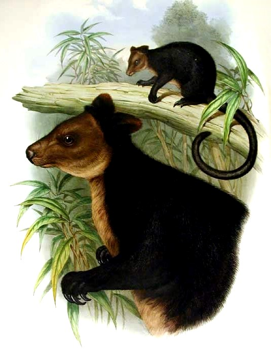 Dendrolagus Photo from "Mammals of Australia", Vol. II Plate 49 Part of the 3 Volumes by John Gould, F.R.S. Published by the author, 26 Charlotte Street, Bedford Square, London, 1863